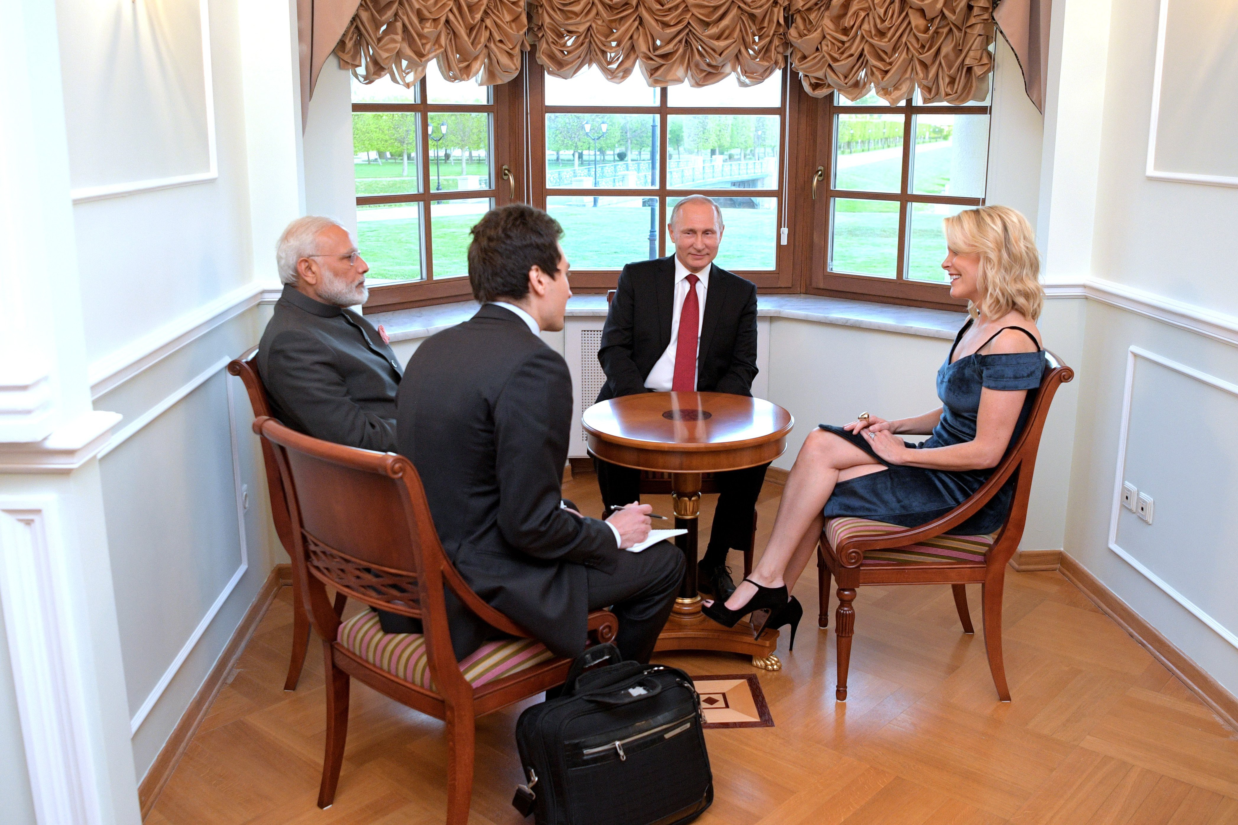 Prime Minister Narendra Modi and President Vladimir Putin meeting with Megyn Kelly, NBC News anchor and moderator of the St Petersburg International Economic Forum plenary session.